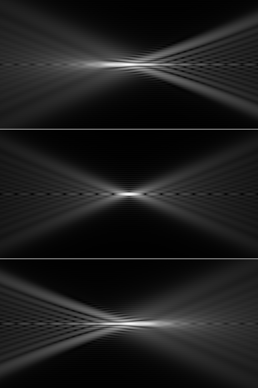 A simulation of spherical aberration in an optical system with a circular, unobstructed aperture admitting a monochromatic point source. These are longitudinal sections through the focus, and scaled to f/1. Inside focus is to the left, and outside-focus is to the right (i.e., light is propagating left to right). The top image is over-corrected (half a wavelength), the middle image is perfectly corrected, and the bottom image is under-corrected (half a wavelength). Note the left/right reversal of the top and bottom images. While this simulation was computed under the rubric of fourier optics, you can compare these images to commonly drawn diagrams in geometric optics. See also the corresponding focal plane images.